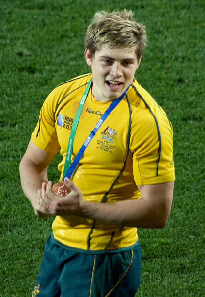 Australian rugby union player James O'Connor after 2011 Rugby World Cup Bronze Final against Wales.